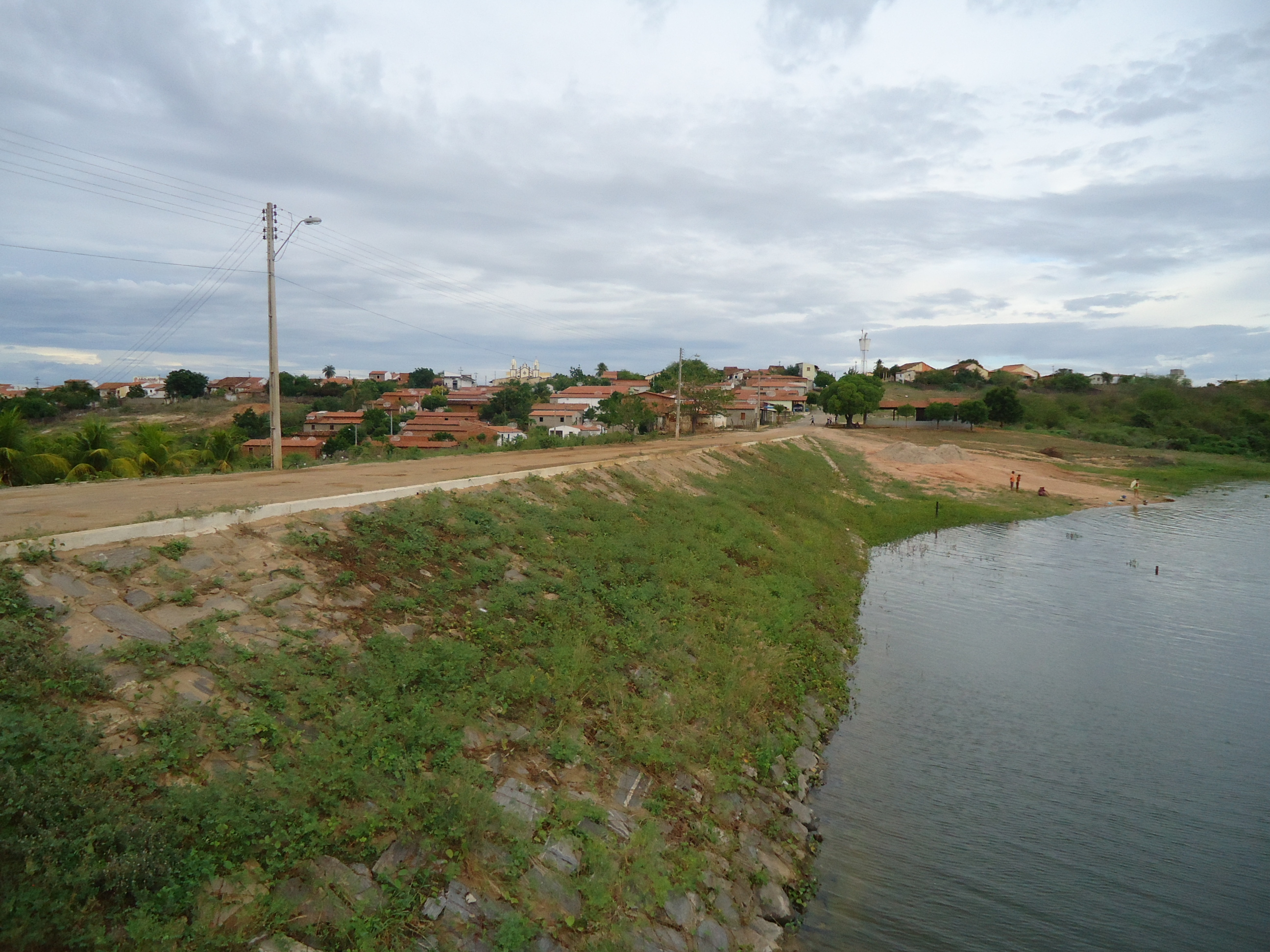 Weir, dam in Jaguaribe, Brazil